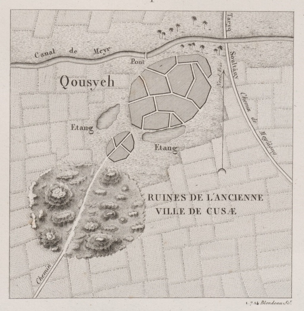 Map of the town of Cusae (modern El Qusiya) in Egypt (end 1700s-before 1809).